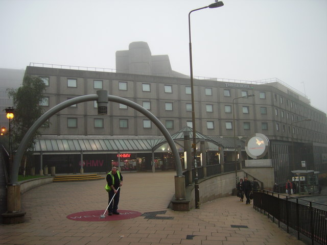 St James' Centre, Edinburgh The St James' shopping centre, Edinburgh. Although it is probably central Edinburgh's largest shopping centre, the architecturehas been heavily criticised by many